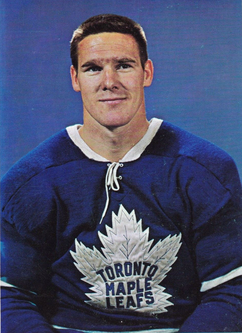 Trading card photo of Tim Horton as a member of the Toronto Maple Leafs. These cards were printed on the backs of Chex cereal boxes in the US and Canada from 1963 to 1965. Those collecting the cards cut them from the back of the boxes. Horton's card at PSA.